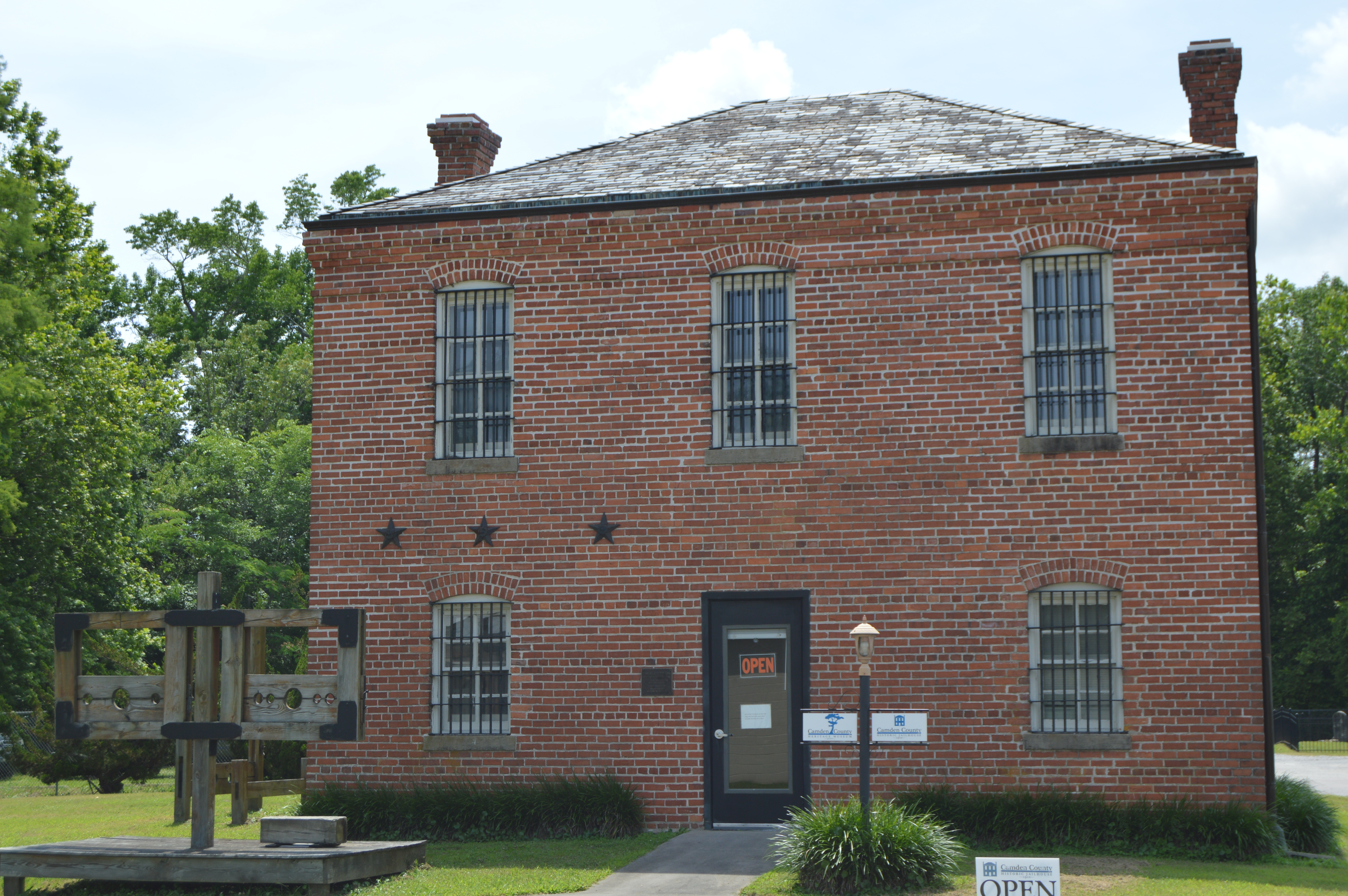 Front of the Camden County Jail (now the local museum), located along North Carolina Highway 343 at Camden in Camden County, North Carolina, United States. Built in 1910, it is listed on the National Register of Historic Places.